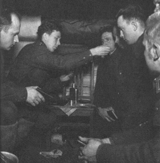 Military Chaplain Jorma Heiskanen administering communion to Finnish troops in a bunker on the shore of Kollaa river during the Winter War